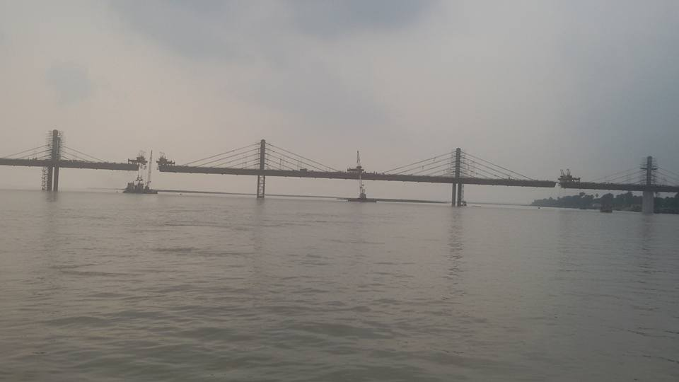 Arrah Chhapra June 2017